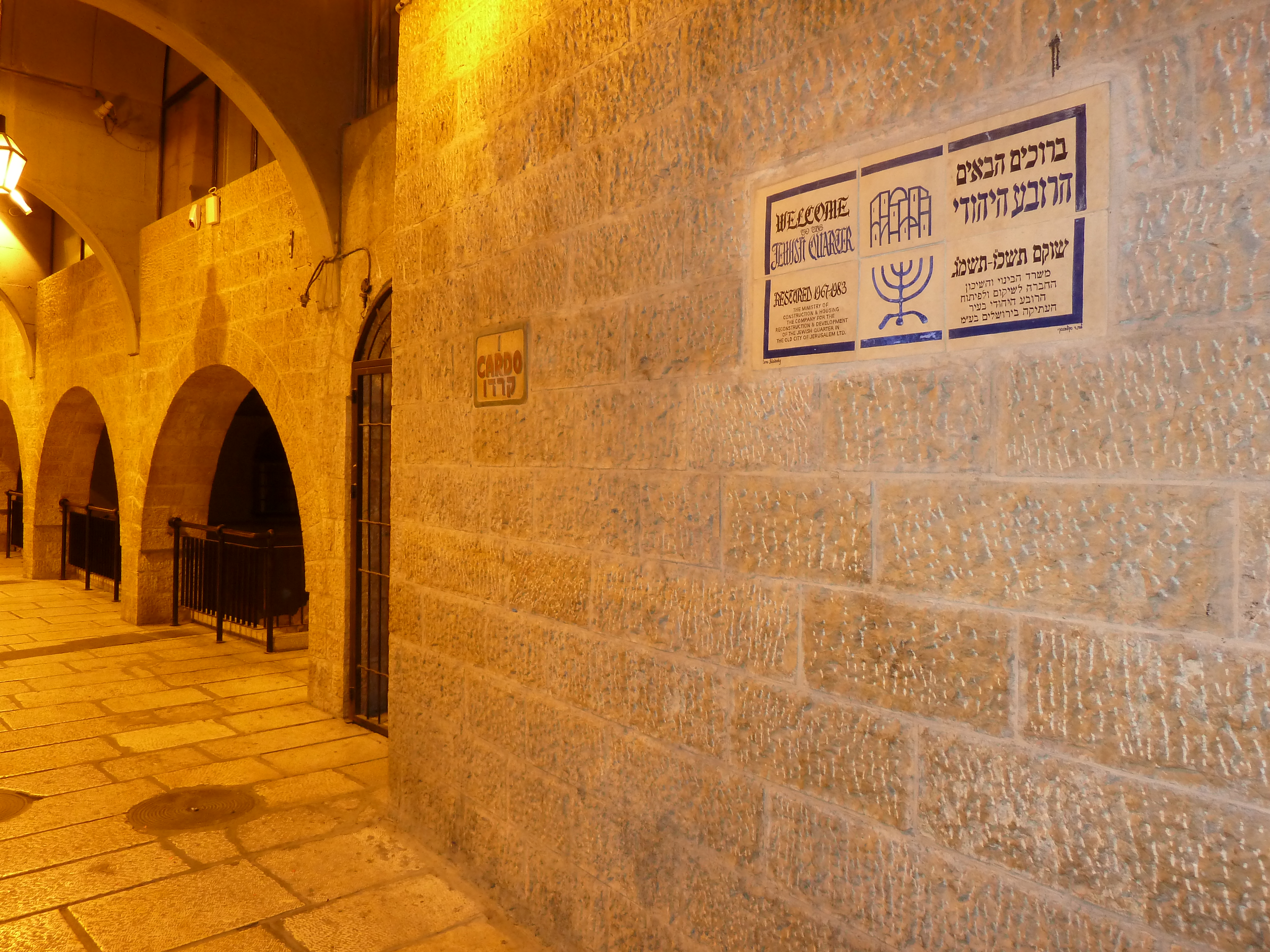 Old Jerusalem סיורובע Welcome and Cardo sign : "WELCOME TO THE JEWISH QUARTER RESTORED 1967-1983 THE MINISTRY OF CONSTRUCTION & HOUSING THE COMPANY FOR THE RECONSTRUCTION & DEVELOPMENT OF THE JEWISH QUARTER IN THE OLD CITY OF JERUSALEM LTD."